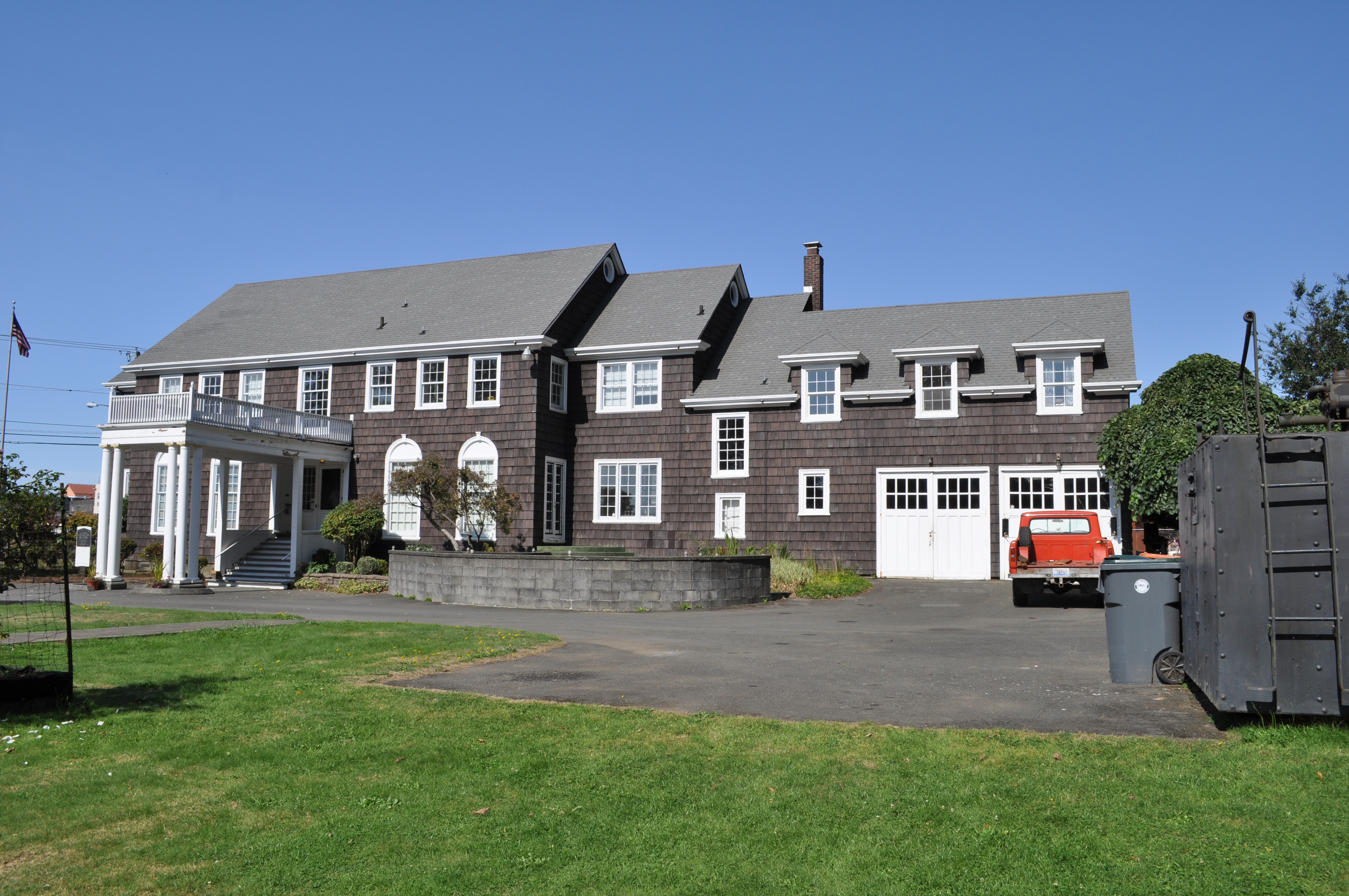 Arnold Polson House, Hoquiam, Washington, USA, now the Polson Museum. Listed on the National Register of Historic Places.